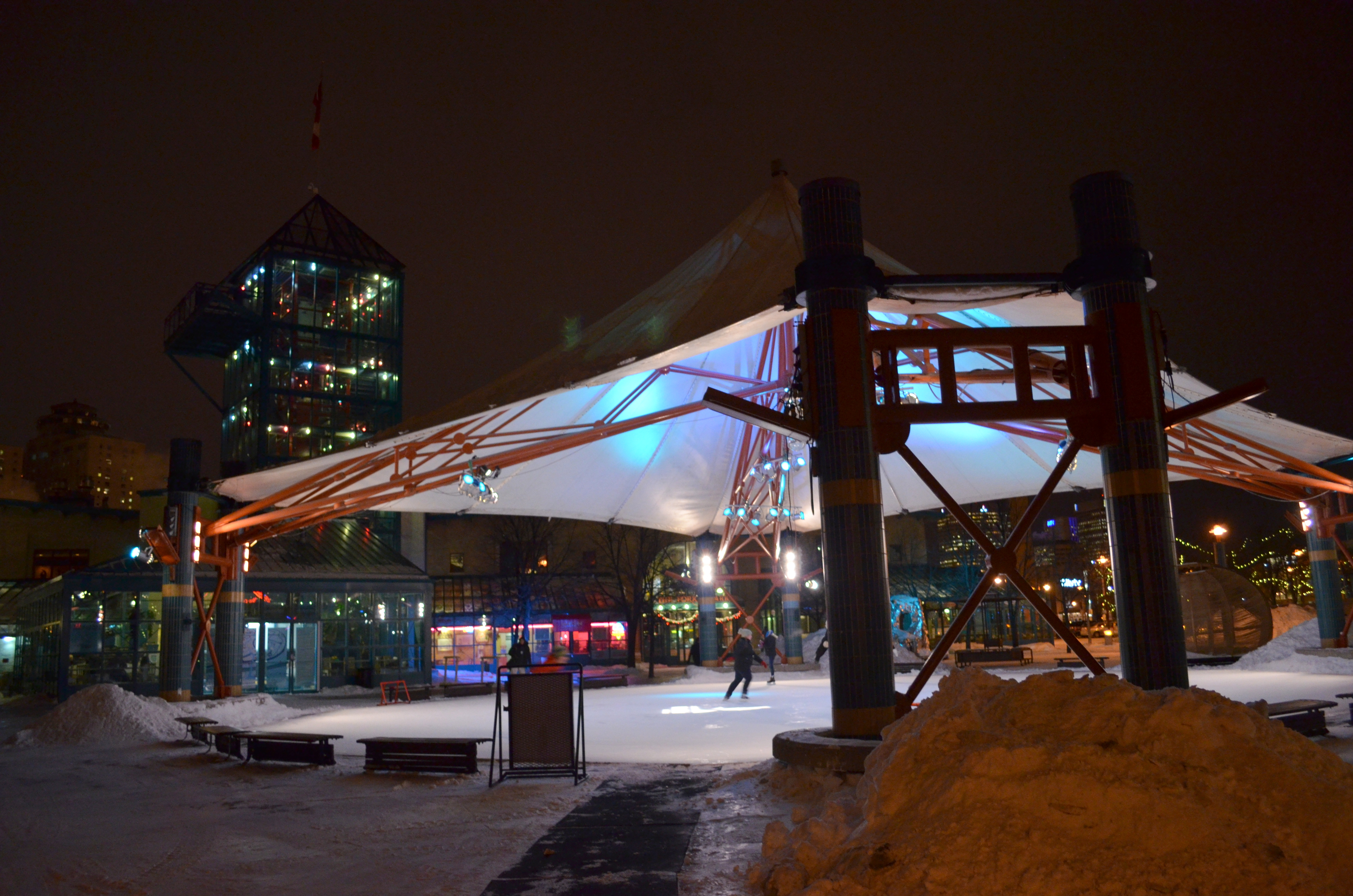 Ice skating under the canopy at The Forks, in Winnipeg Manitoba